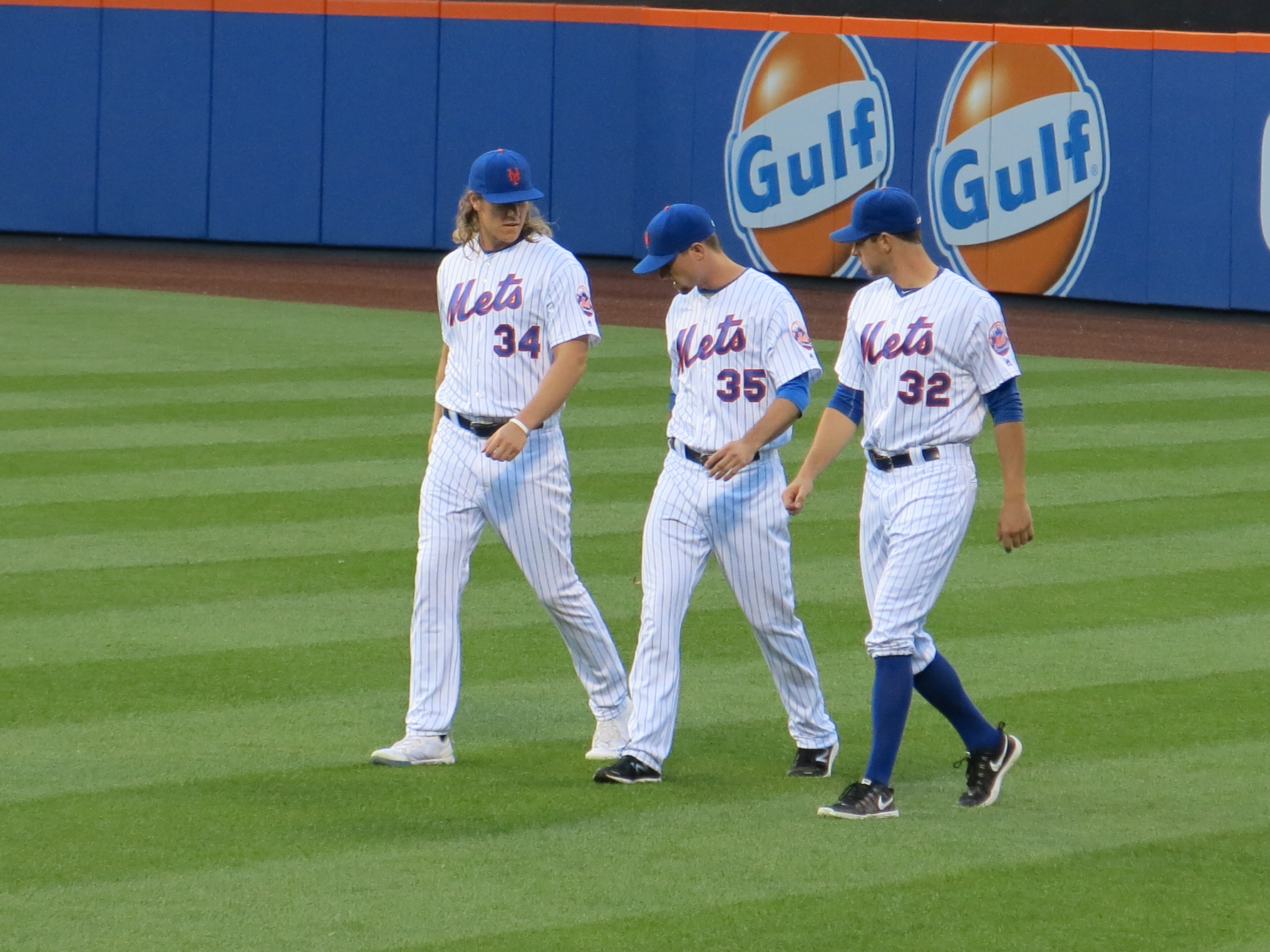 Noah Syndergaard, Logan Verrett and Steven Matz of the New York Mets, August 2, 2016.